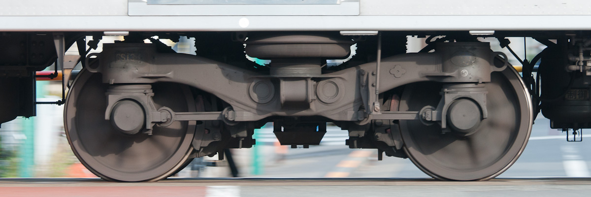 Tobu 30000 series EMU SS138 motored bogie